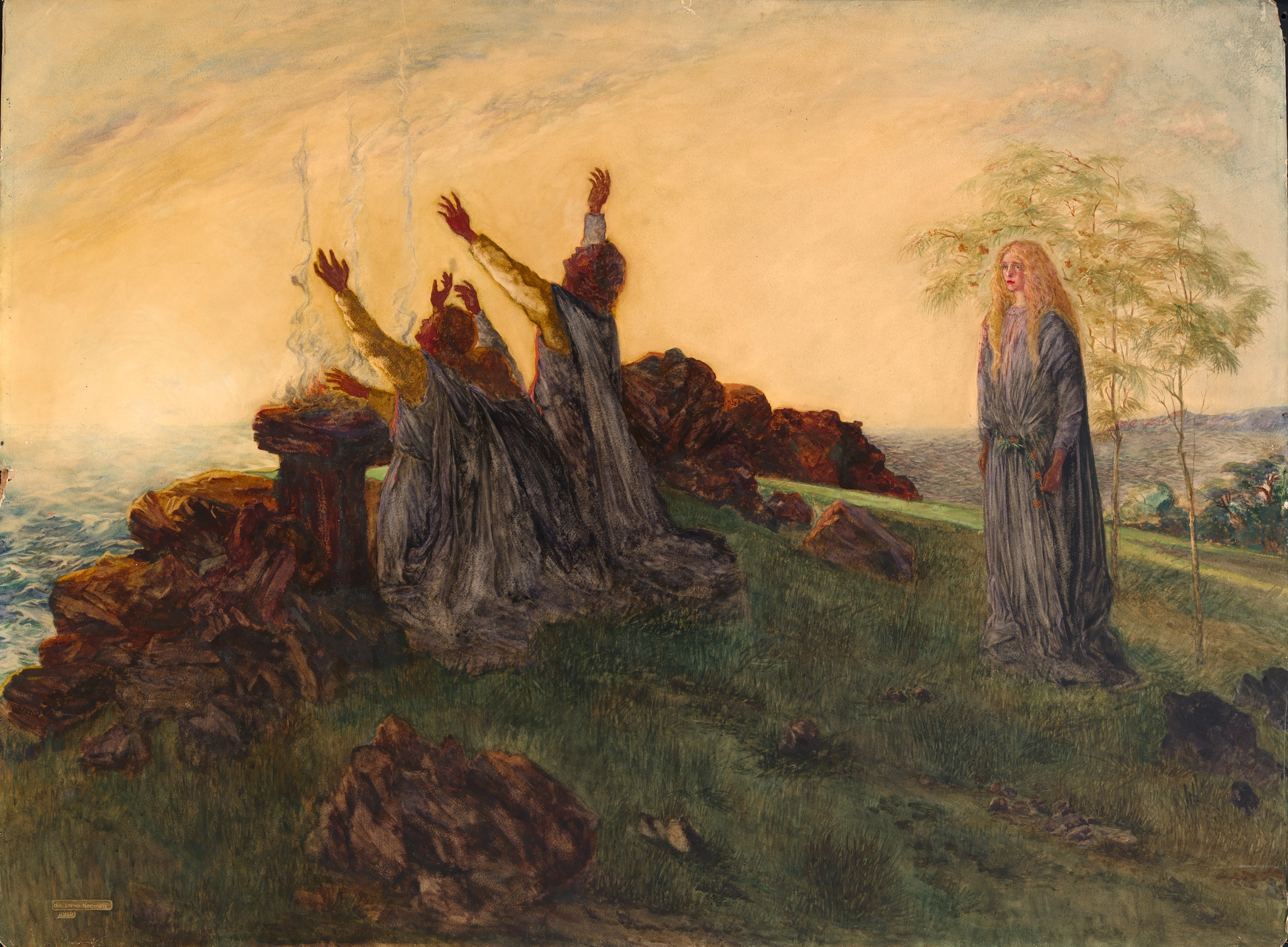 The Passing of St. Brigid of Kildare.